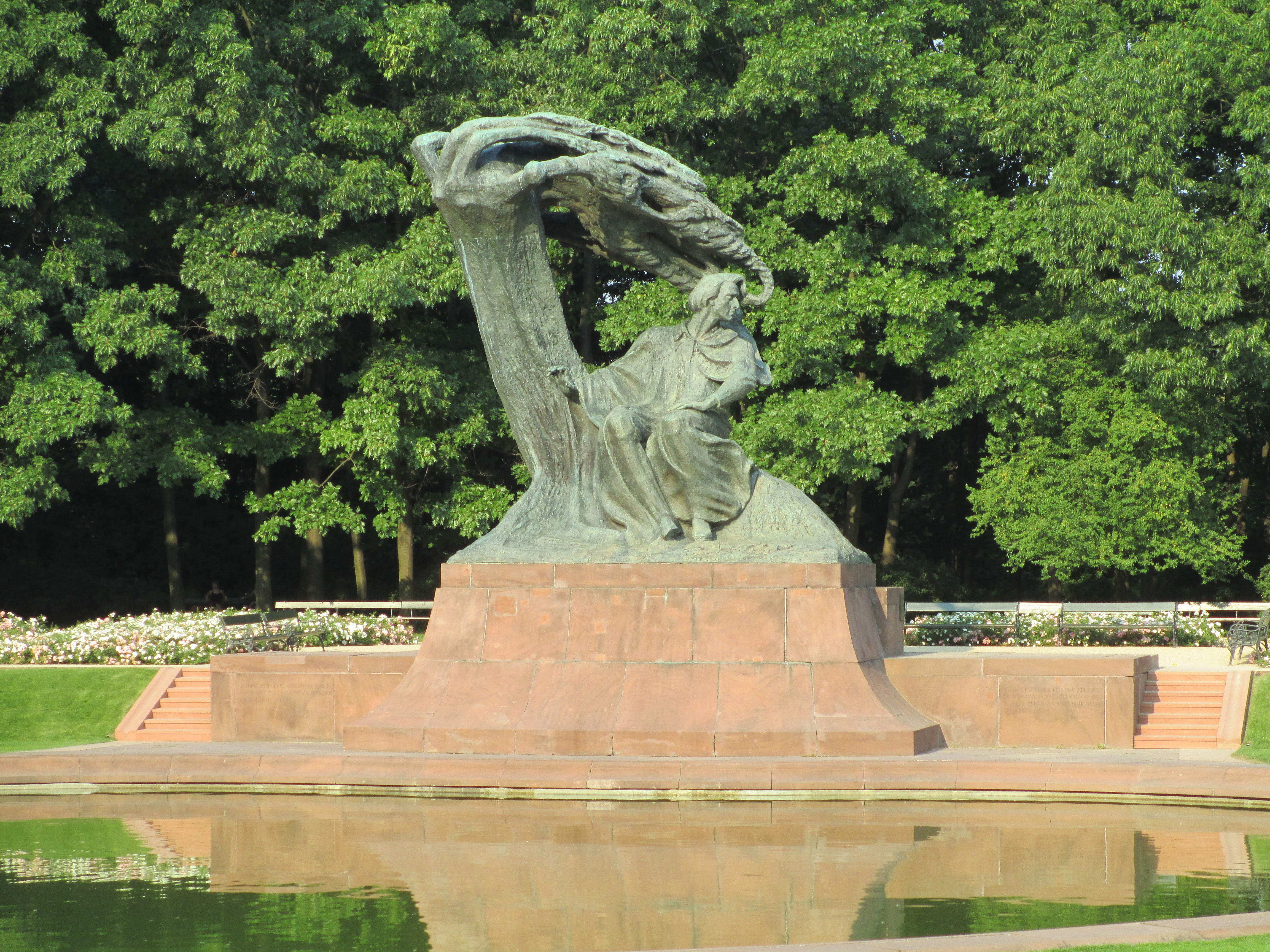 frederic chopin monument in warsaw